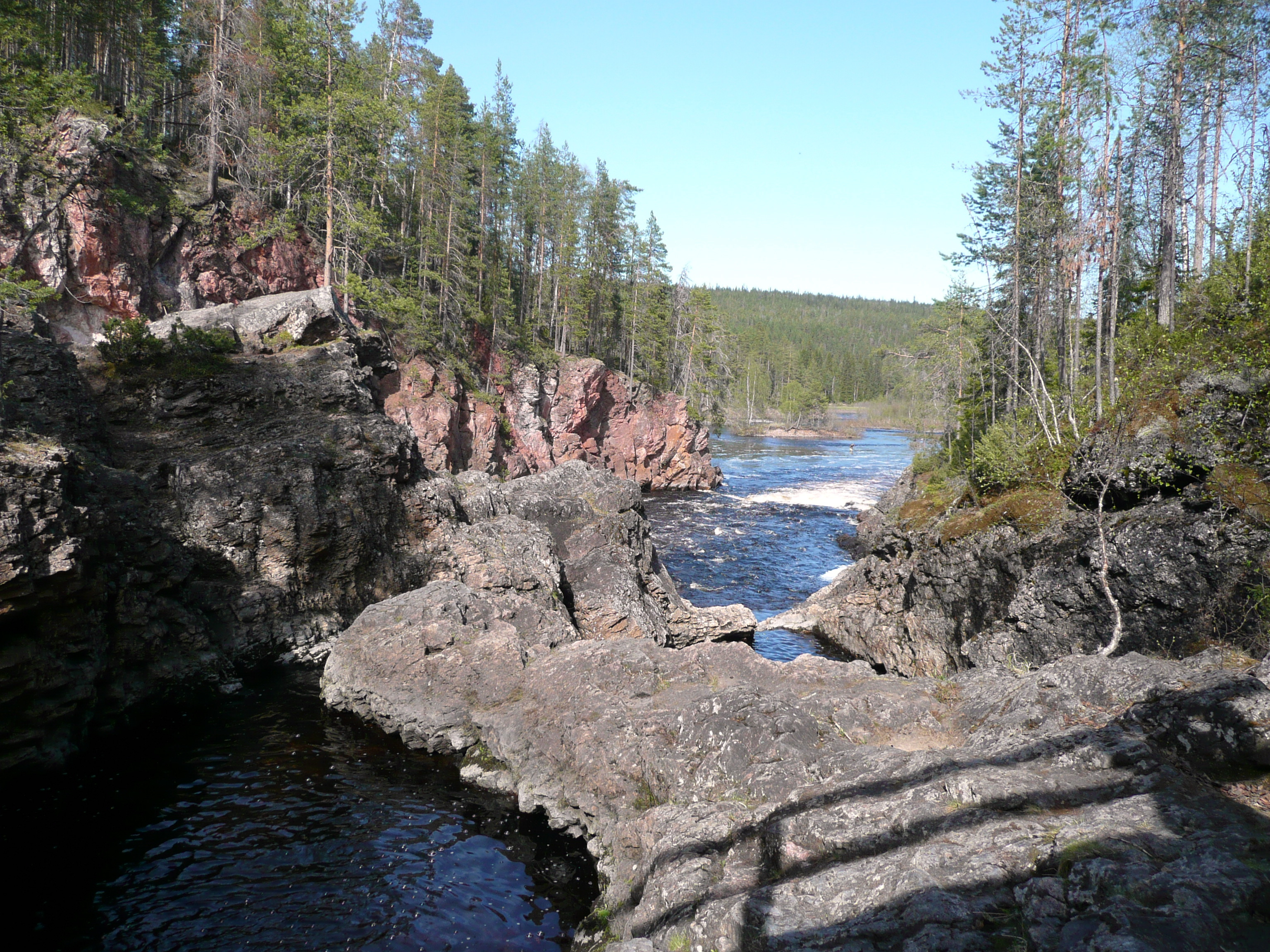 Oulanka National Park